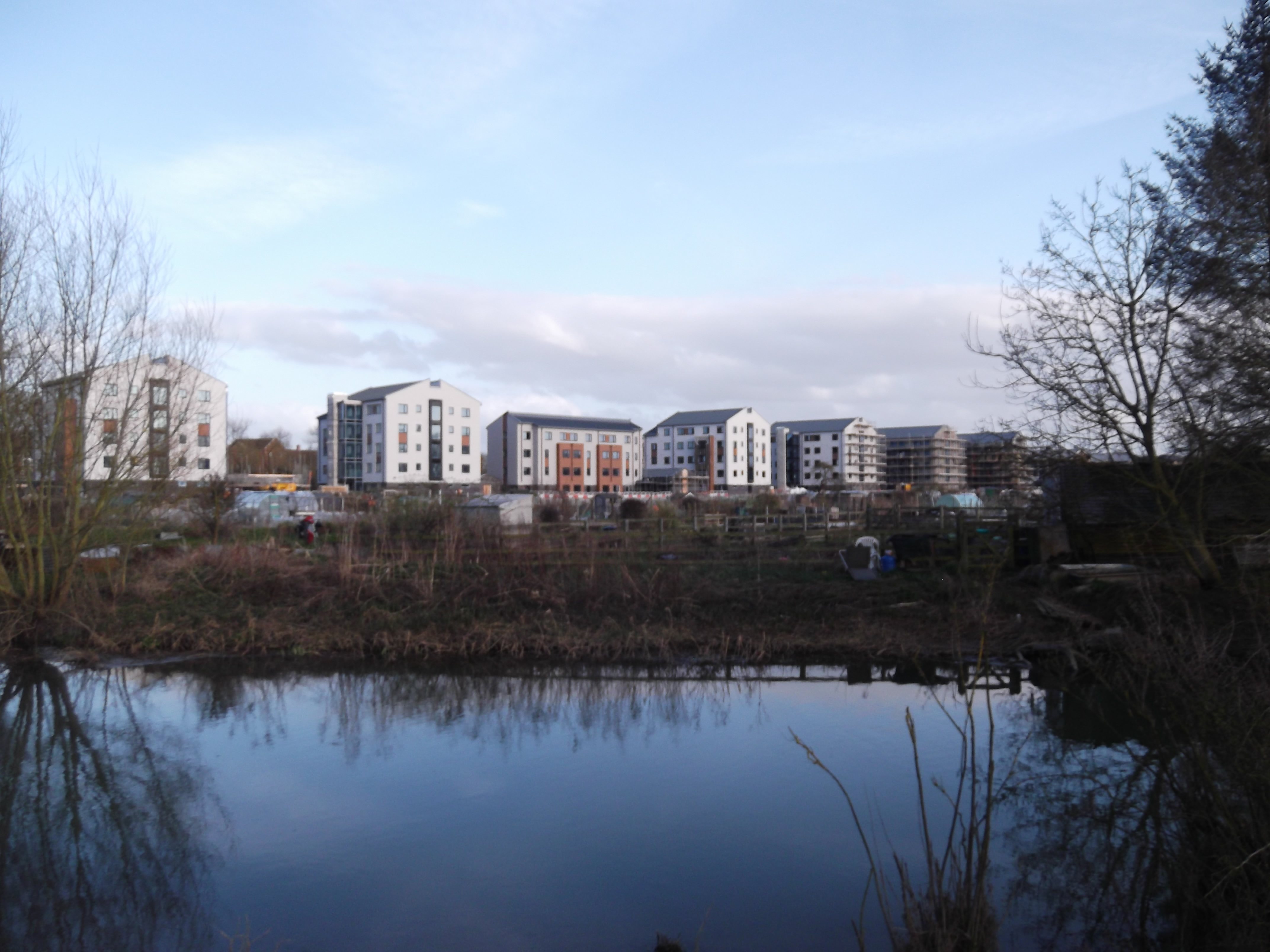 Castle Mill student accommodation blocks of Oxford University from Castle Mill Stream, at the south end of Port Meadow, looking over the Cripley Meadow allotments, Oxford, England.